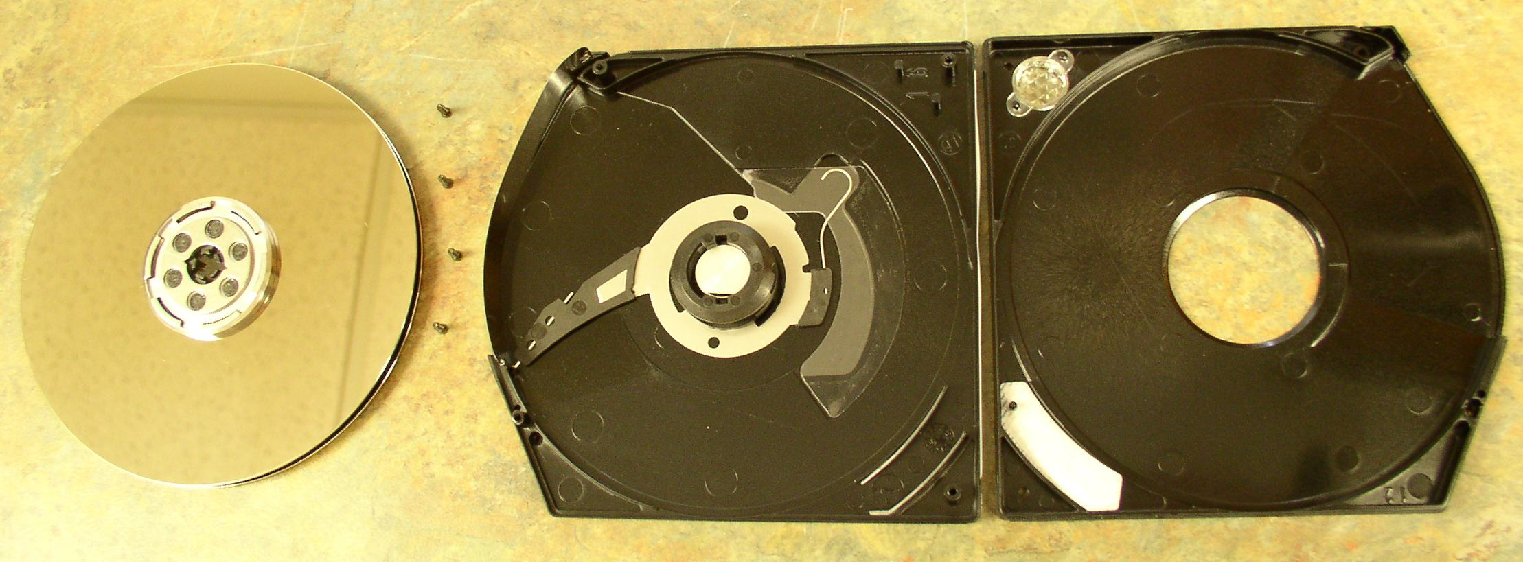 disassembled Iomega jaz cartridge. There is a reflector like piece in the upper left hand corner of the right most piece. The bottom left hand corner of the right most piece contains a small lint filter driven by airflow caused by the rotating platters. Note the sliding door, made of a thin, soft metal strip. It is attached to the lever locks the platters down when the door is closed, thus there is no rattle.